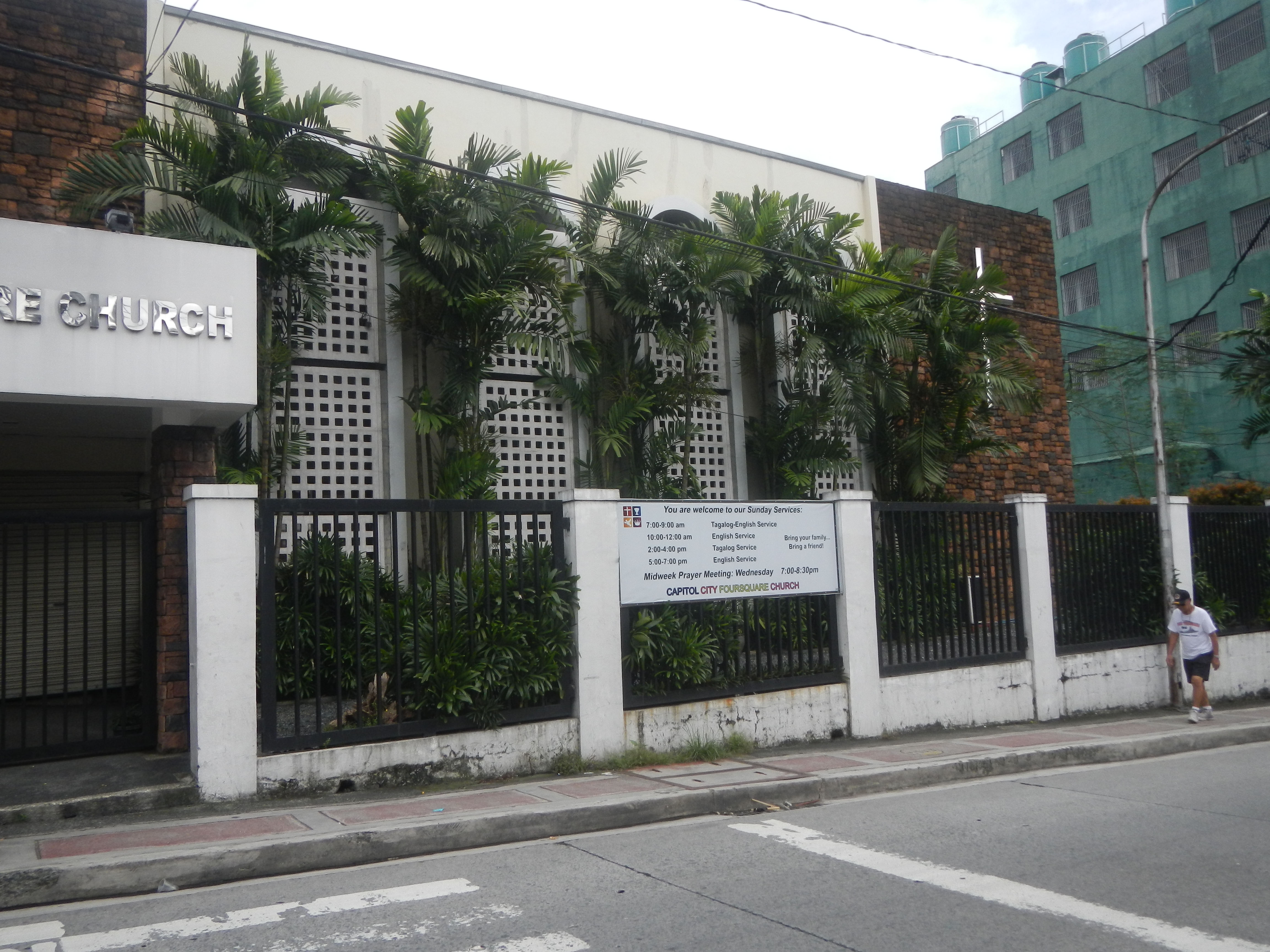 List of barangays of Metro Manila, Legislative districts of Quezon City Districts 3, Barangays of Quezon City, Barangay Quirino 3-A, District III, Cubao, Project 3, Anonas beside Barangay Duyan-duyan (Project 3), Barangay Marilag (Project 4) and Barangay Bagumbuhay (Project 4), Quezon City surrounded List of rivers and estuaries in Metro Manila San Juan River (Metro Manila) Buaya Creek of the Estuaries in Cubao, Quezon City towards Aurora Boulevard (Note: Judge Florentino Floro, the owner, to repeat, Donor Florentino Floro of all these photos hereby donate gratuitously, freely and unconditionally all these photos to and for Wikimedia Commons, exclusively, for public use of the public domain, and again without any condition whatsoever).